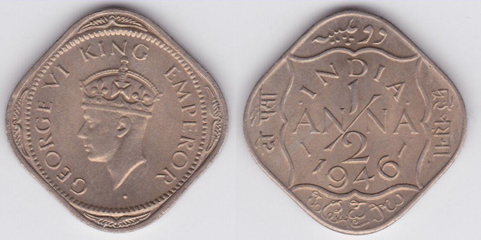 Template:WorldCoinGallery This coin belongs to the last series issued by the British colonial government